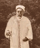 Abd Al-Rahman Al-Gillani